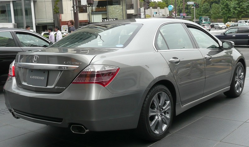 4th generation Honda Legend after restyling (2008)